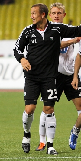 Association football player Srđa Knežević from Serbia during UEFA Europa League qualification match between Legia Warszawa and Spartak Moscow at Luzhniki Stadium.